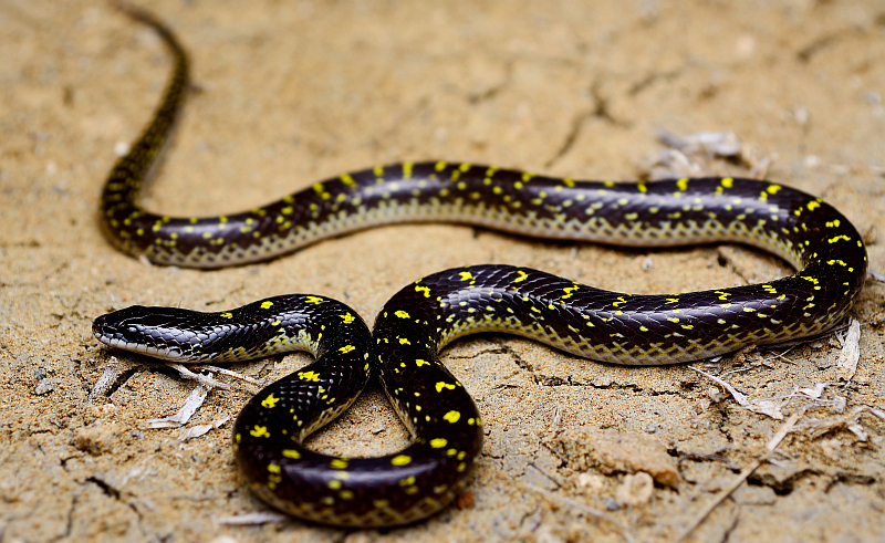 Yellow spotted wolf snake Lycodon flavomaculatus by Ashahar Khan Amravati